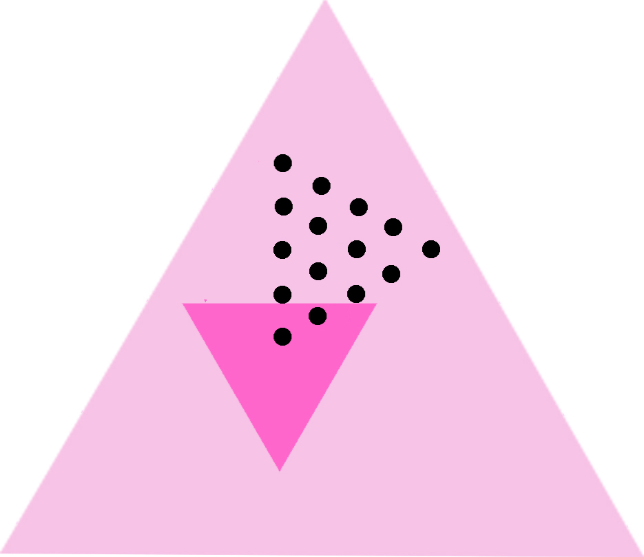 Plan of Sydney Gay and Lesbian Memoria